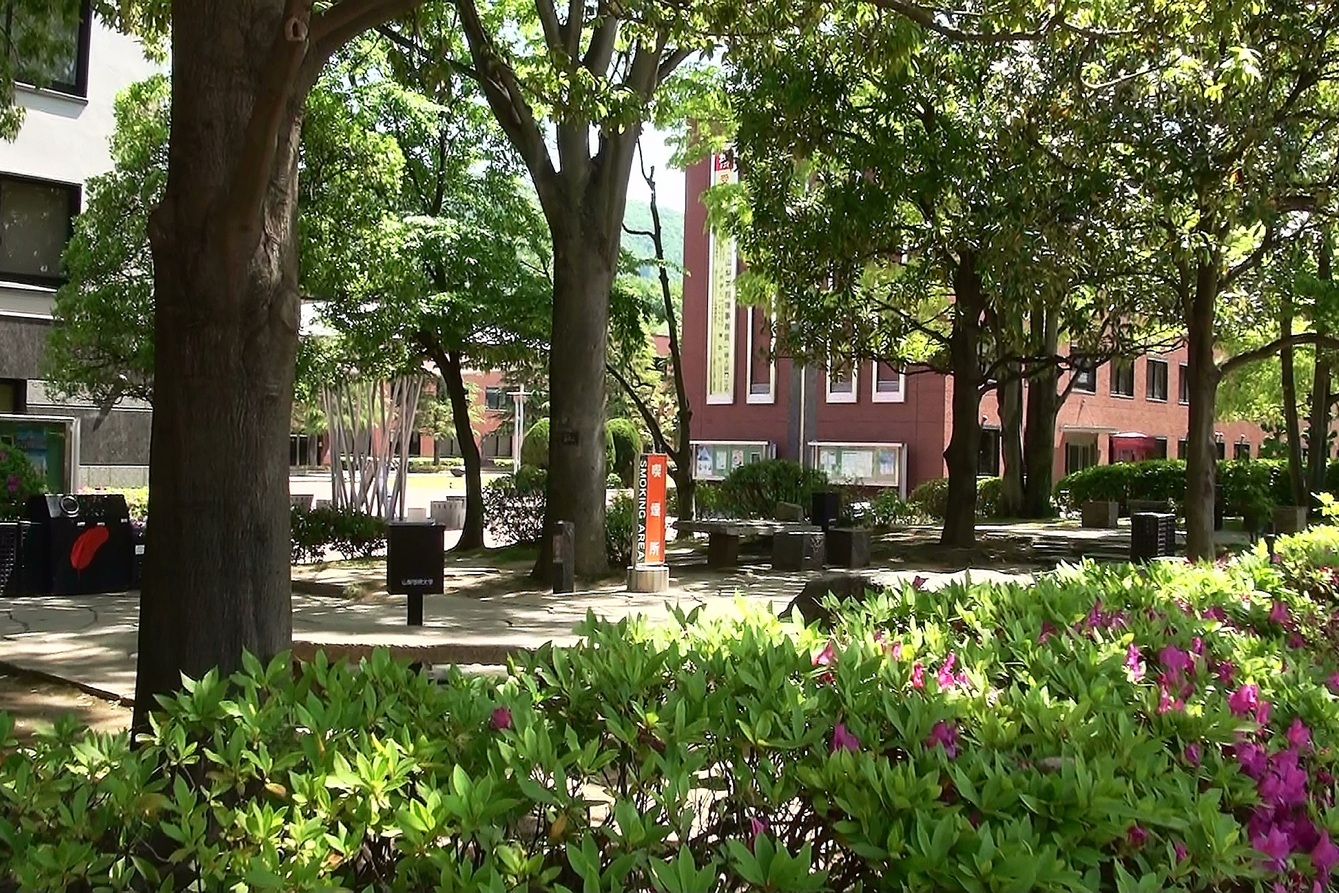 Yamanashi Gakuin University Campus №4